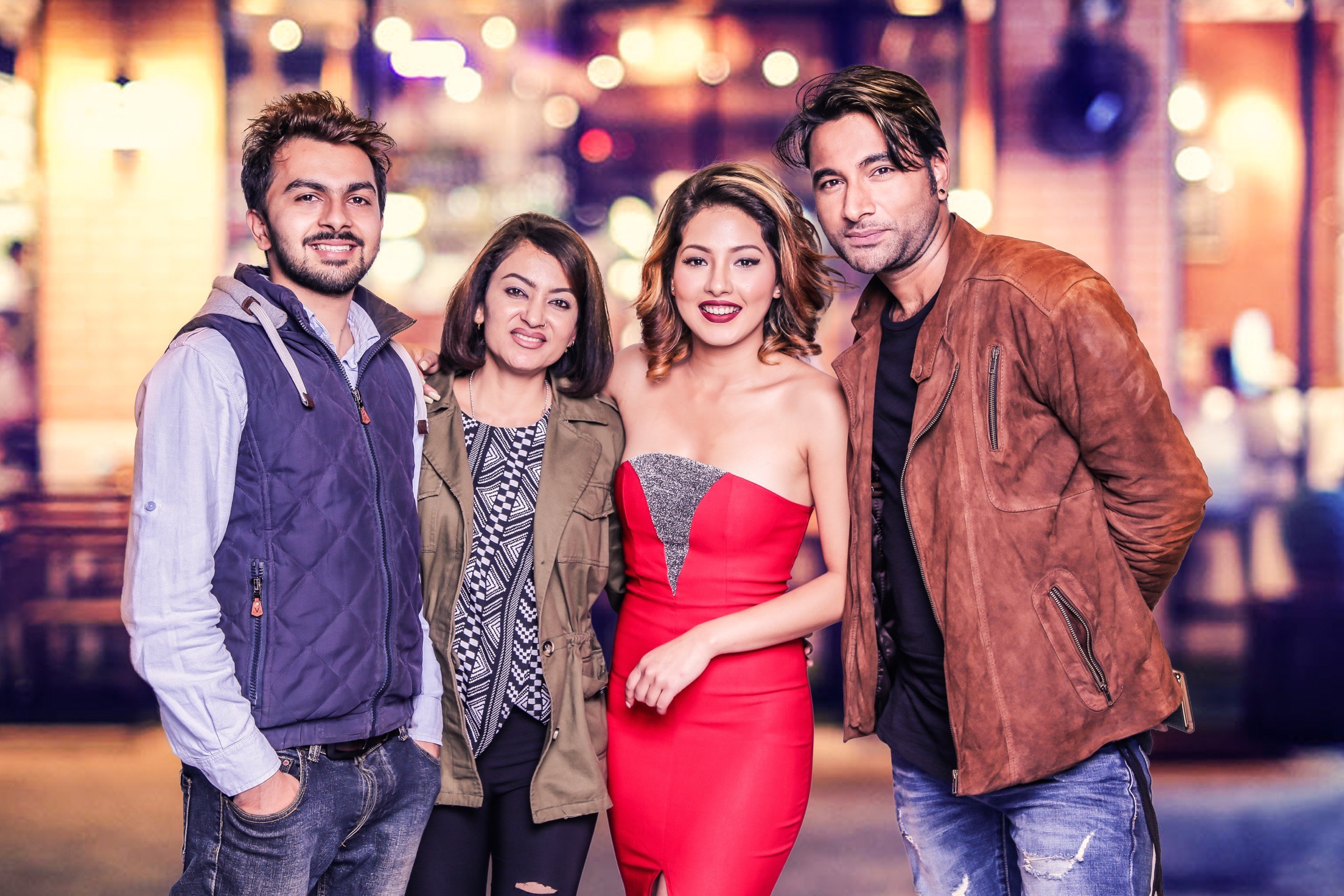 Photo-shot of A Mero Hajur 2 (Nepali Movie). With Samragyee RL Shah, Bijay, Jharana Thapa.